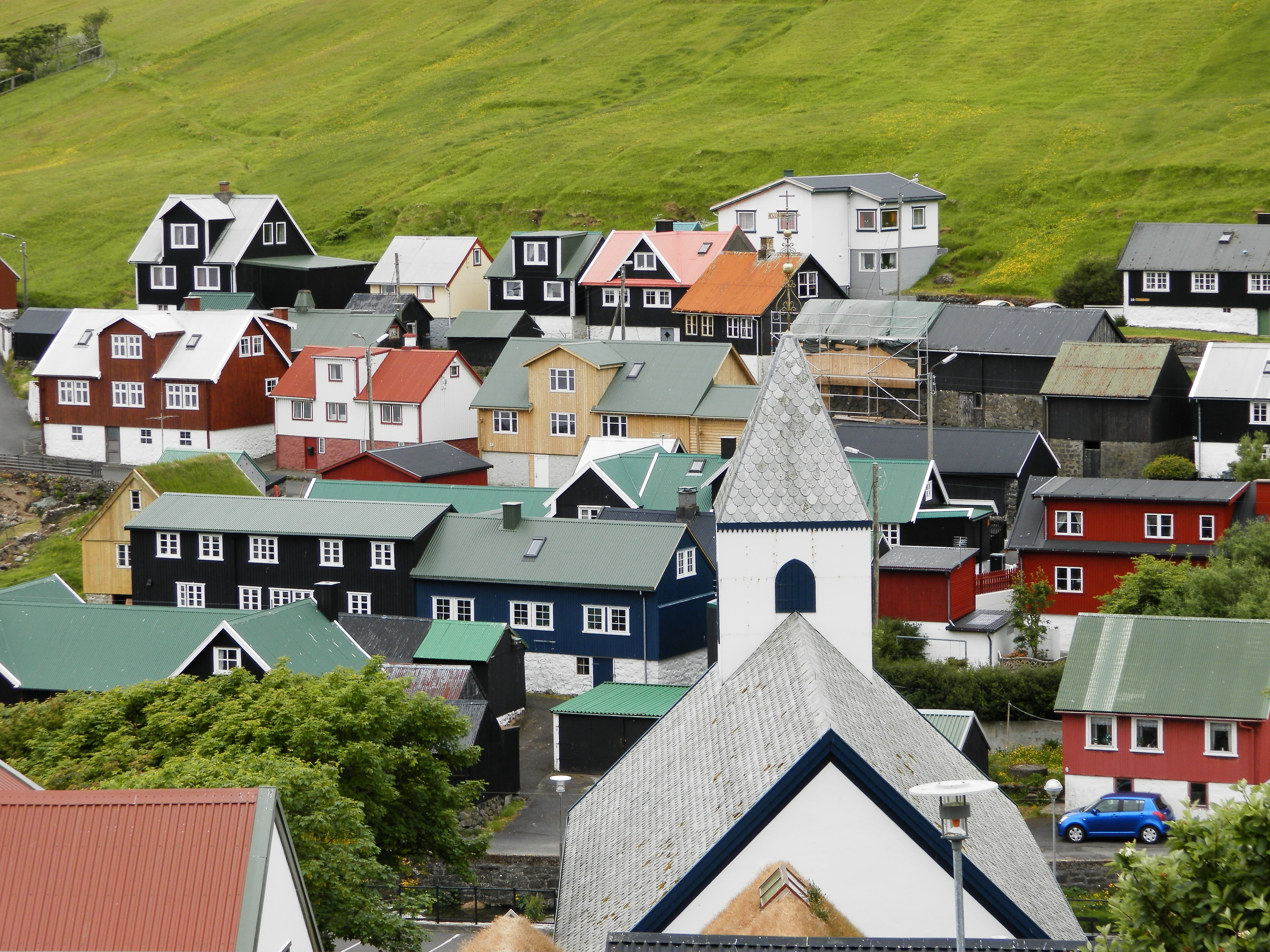 Kvívík is a village on the west coast of Streymoy, Faroe Islands.